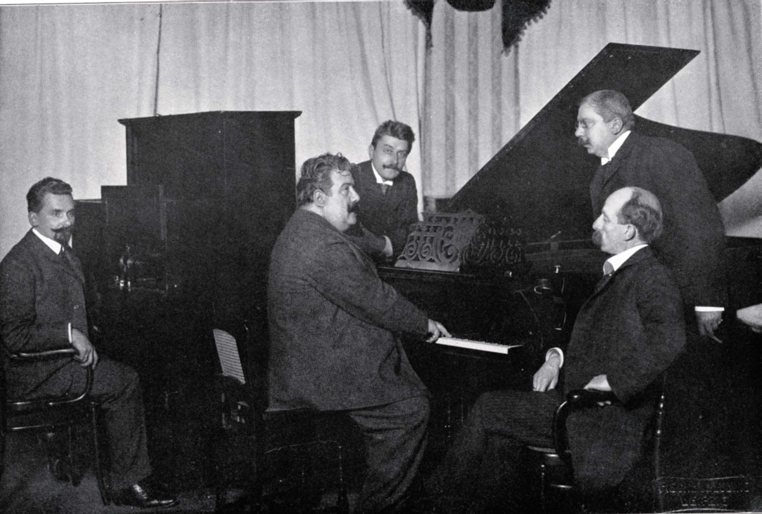 Ruggero Leoncavallo recording for Welte-Mignon Dec. 8, 1905 in Leipzig. Left Karl Bockisch, standing on the right Hugo Popper, sitting right Julius Feurich. Scan from company catalogue 1906